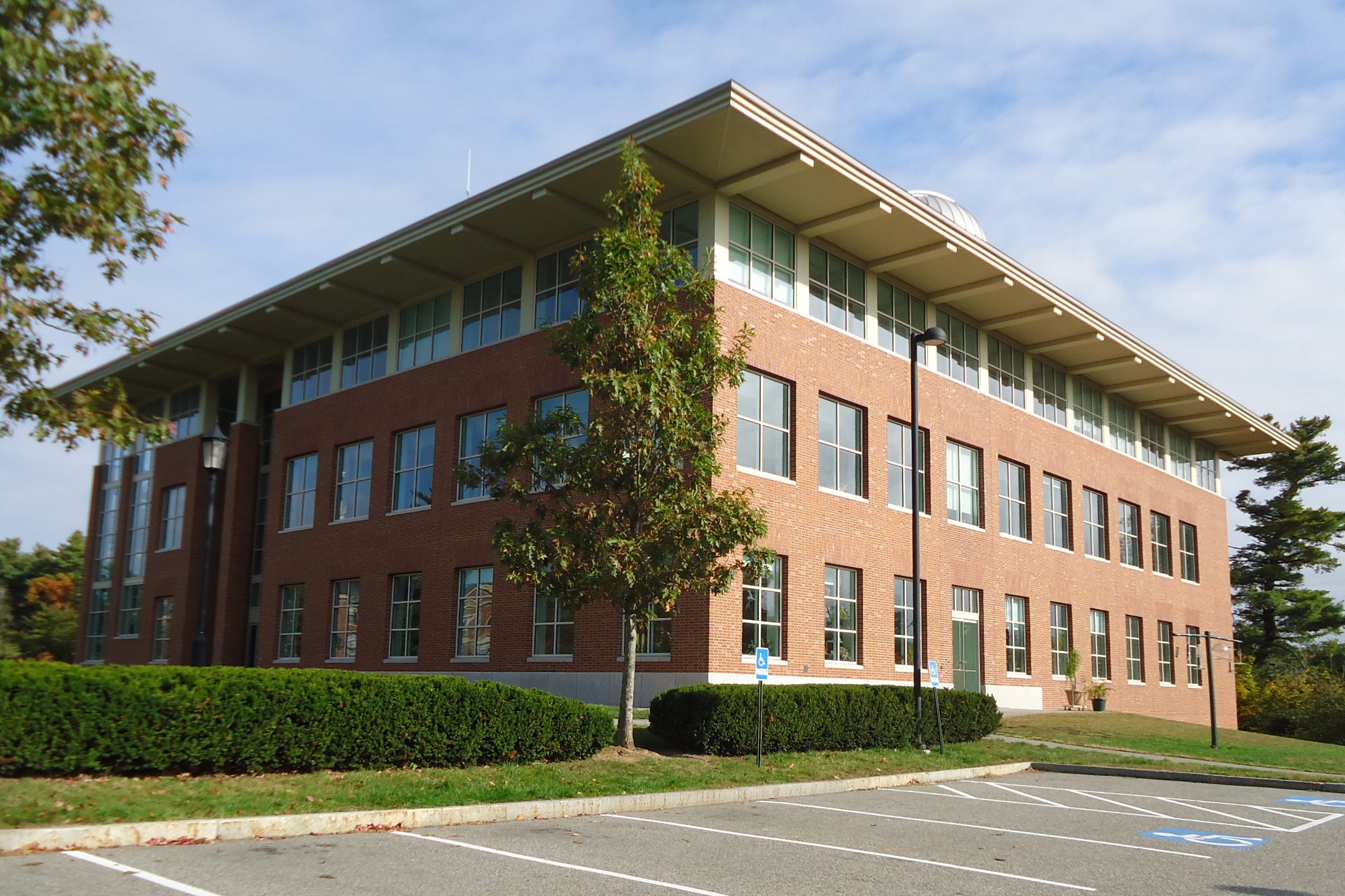 Science center (Gelb?) at Phillips Academy in Andover, Massachusetts.